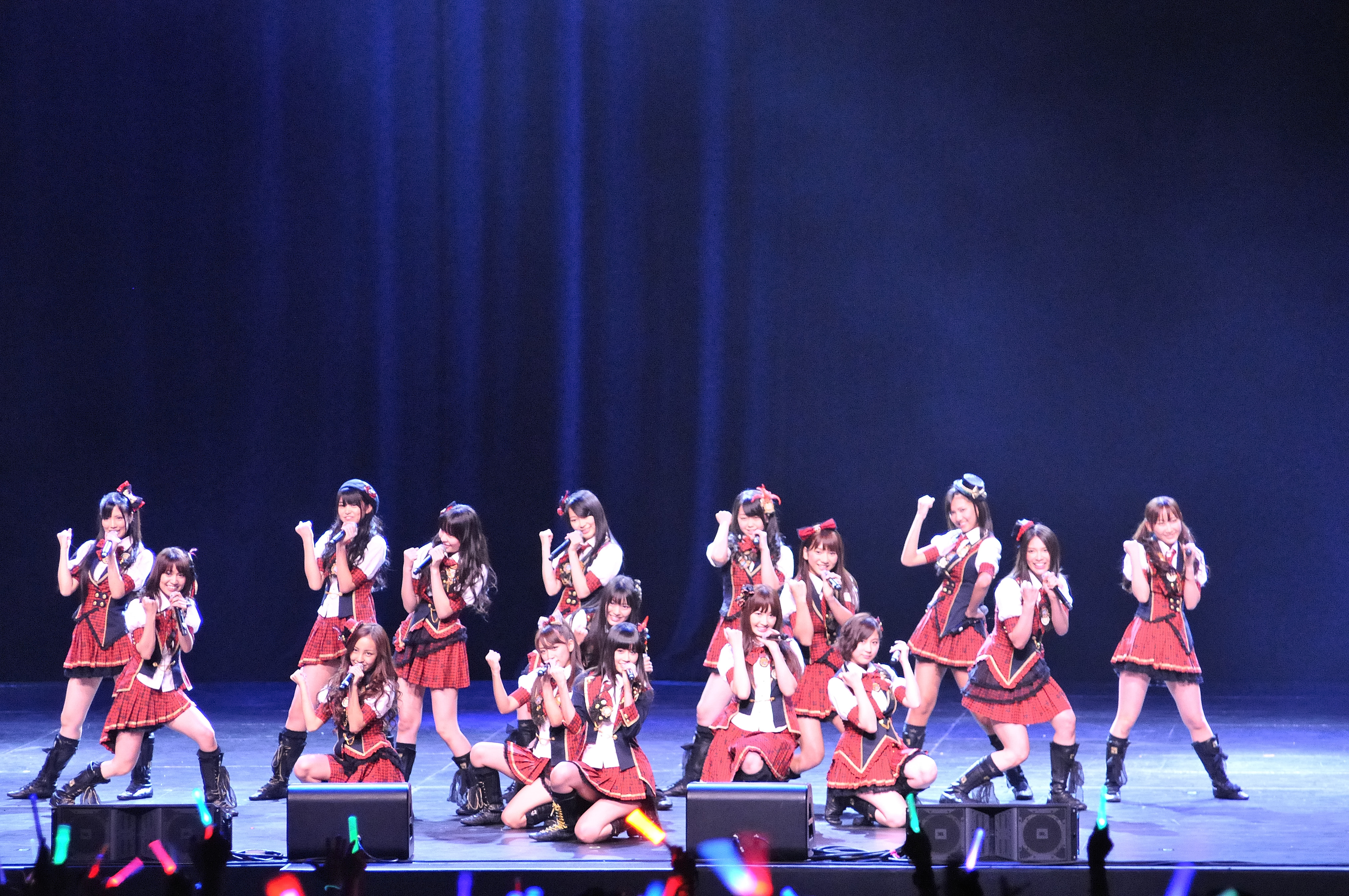 AKB48 members at the J!-ENT LIVE.